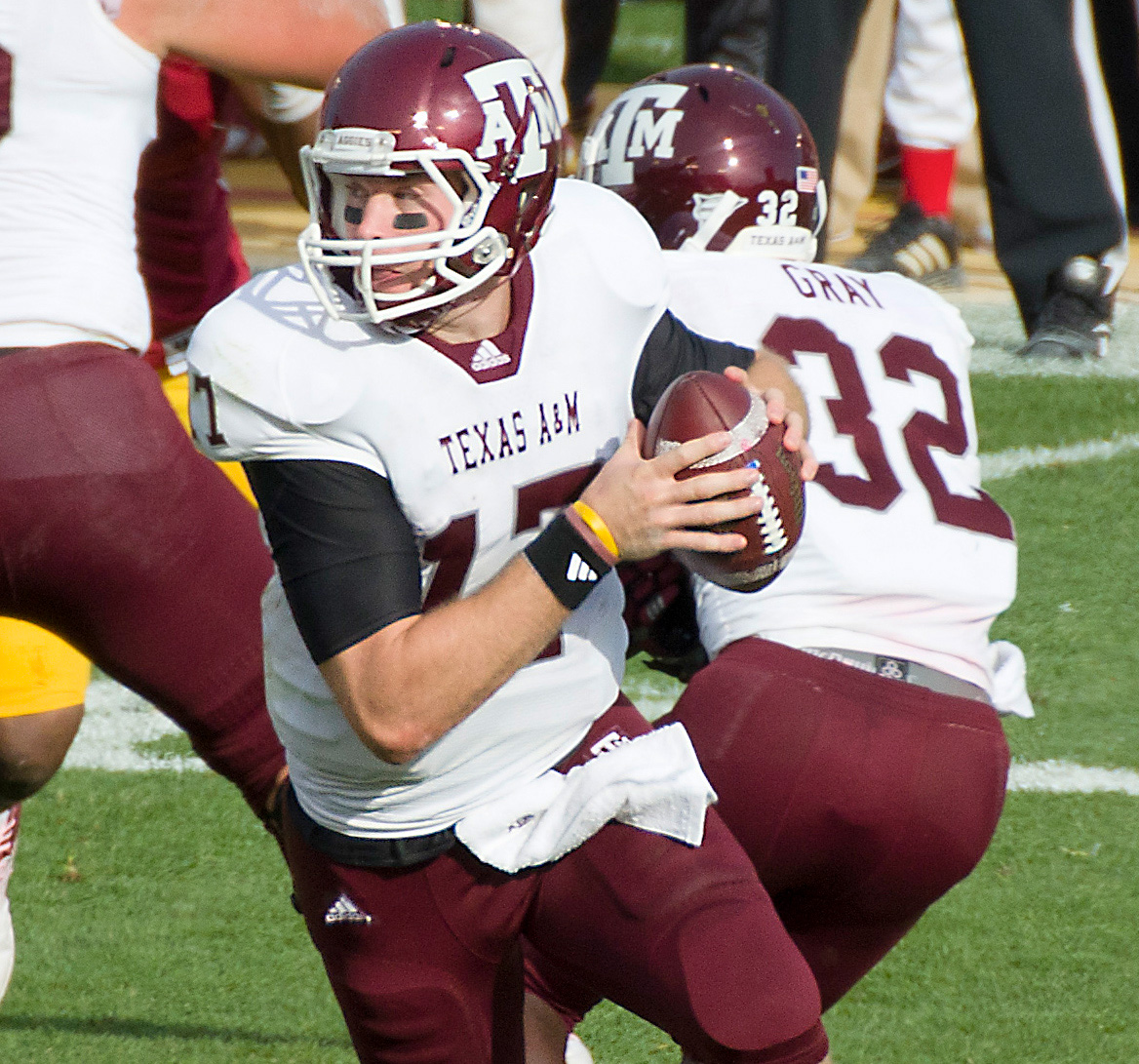 Texas A&M quarterback Ryan Tannehill